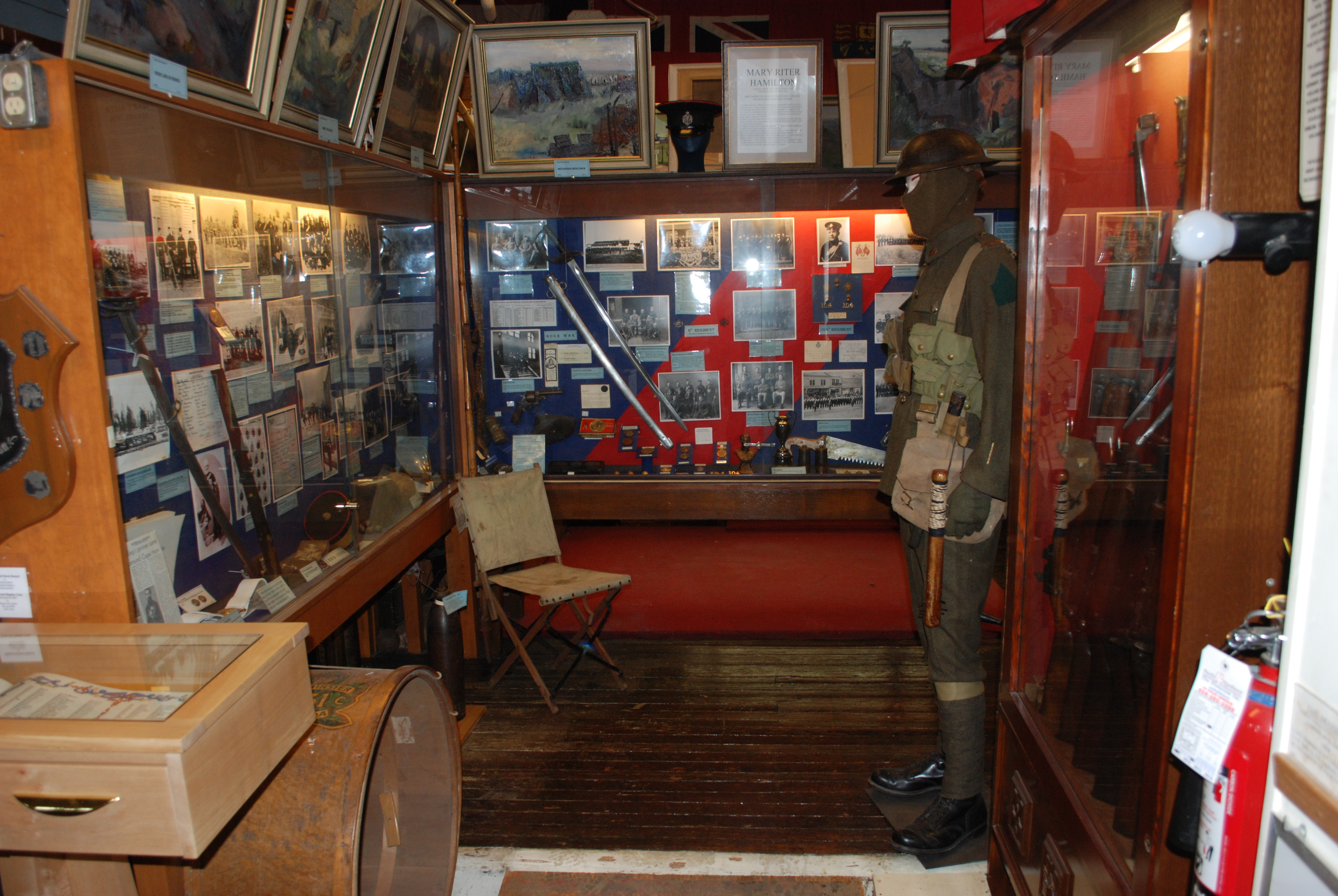 Interior of the Museum